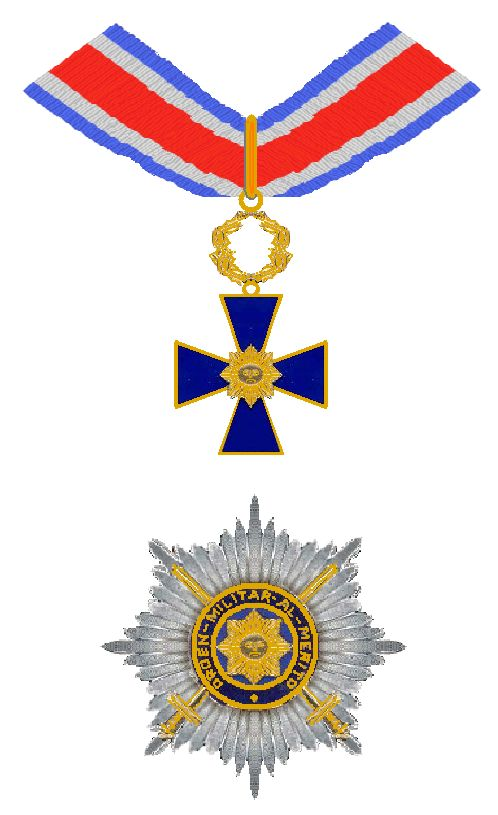 Military Merit Order of Lieutenants of Artigas Orden Militar al Mérito Tenientes de Artigas